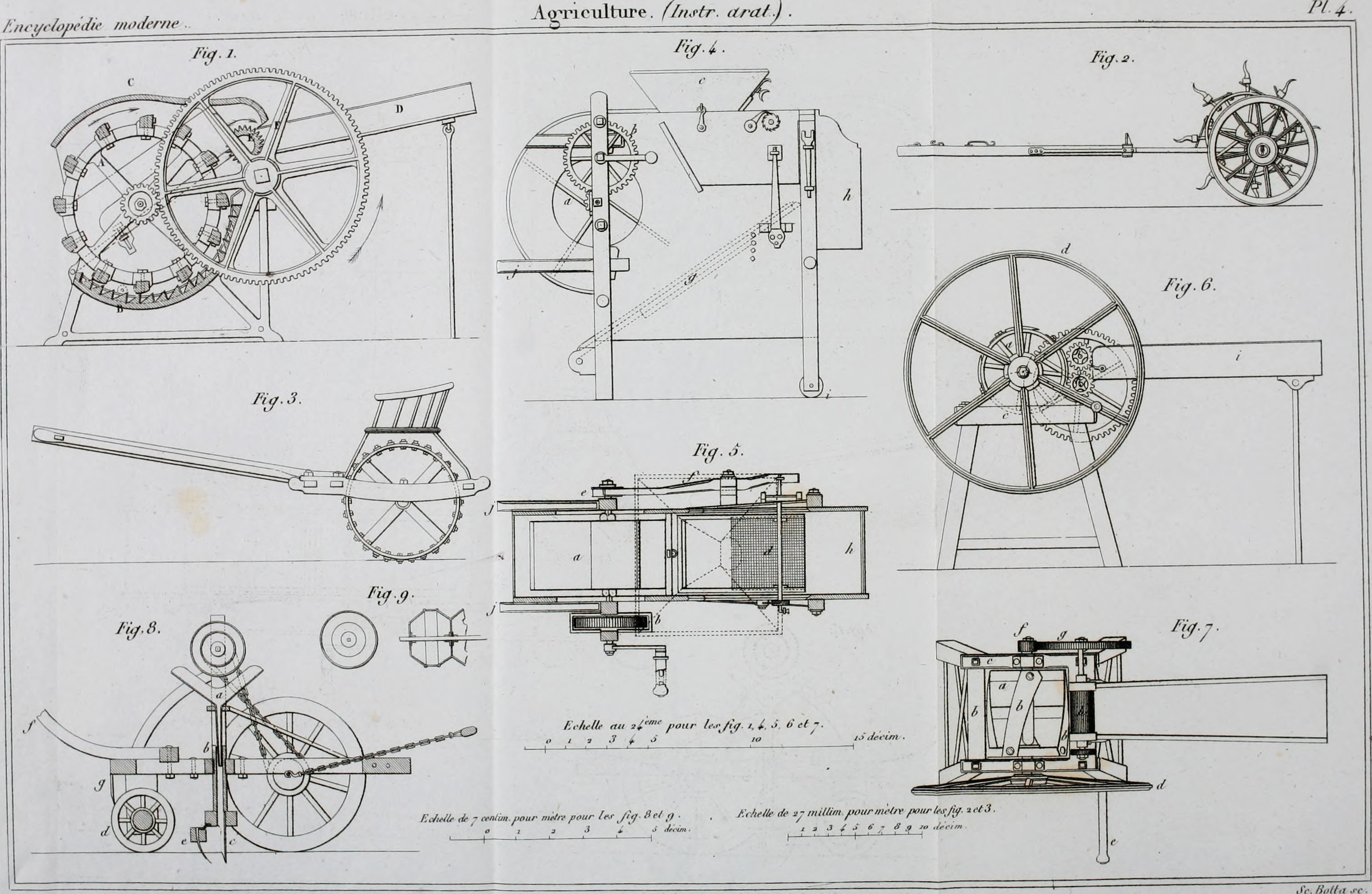 Title: Encyclopédie moderne. ou, Dictionnaire abrégé des sciences, des lettres et des arts ... Year: 1828 (1820s) Authors: Courtin, Eustache-Marie-Pierre-Marc-Antoine Subjects: Encyclopedias and dictionaries, French Publisher: Paris : Bureau de l'Encyclopédie Text Appearing Before Image: /:lu i/t/o/ftùV iiioJer/ie AoTiculture. f/n^fr. itra/.j Text Appearing After Image: '